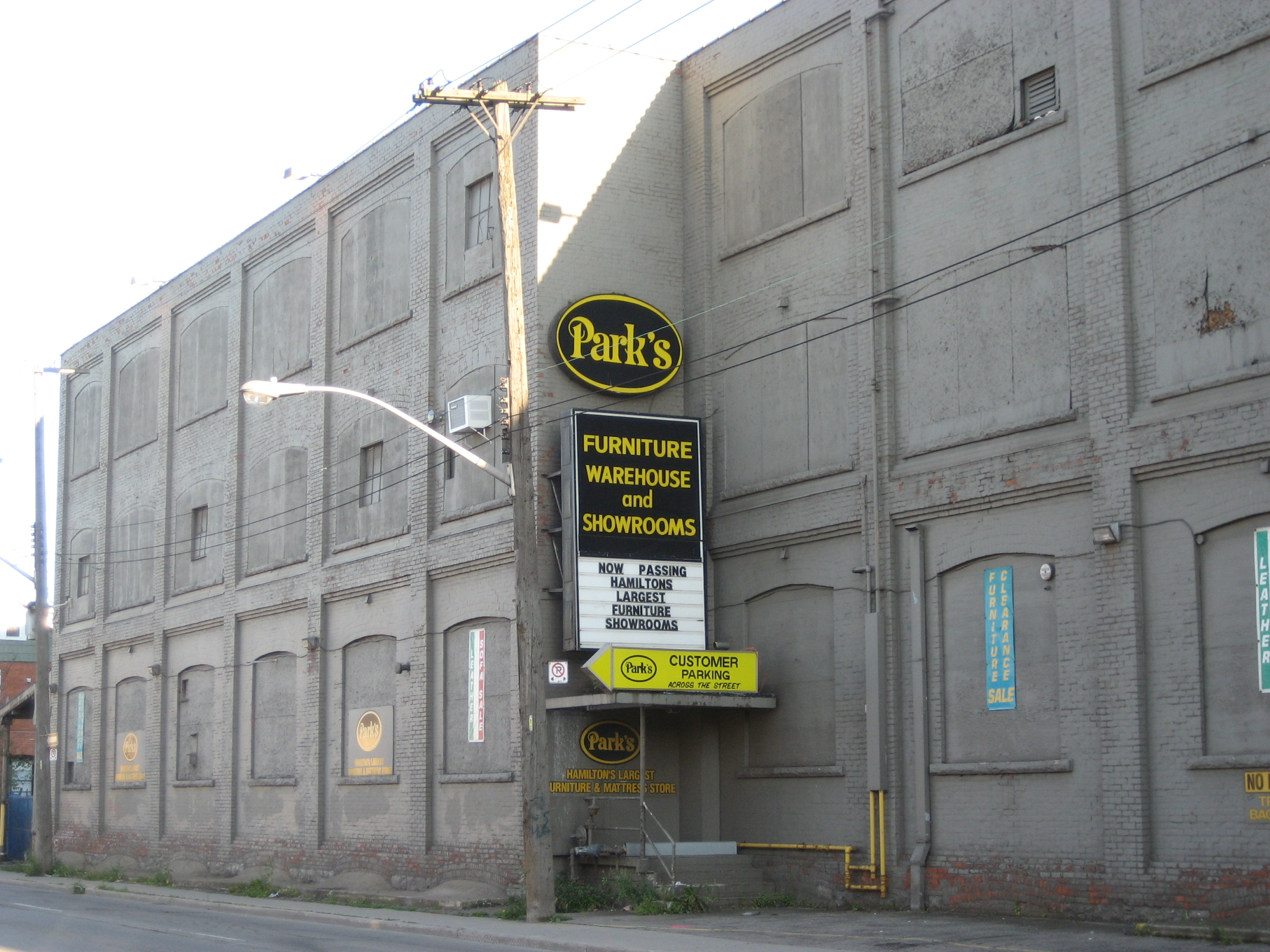 Parks Furniture Warehouse building, Wilson Street, Hamilton, Canada.